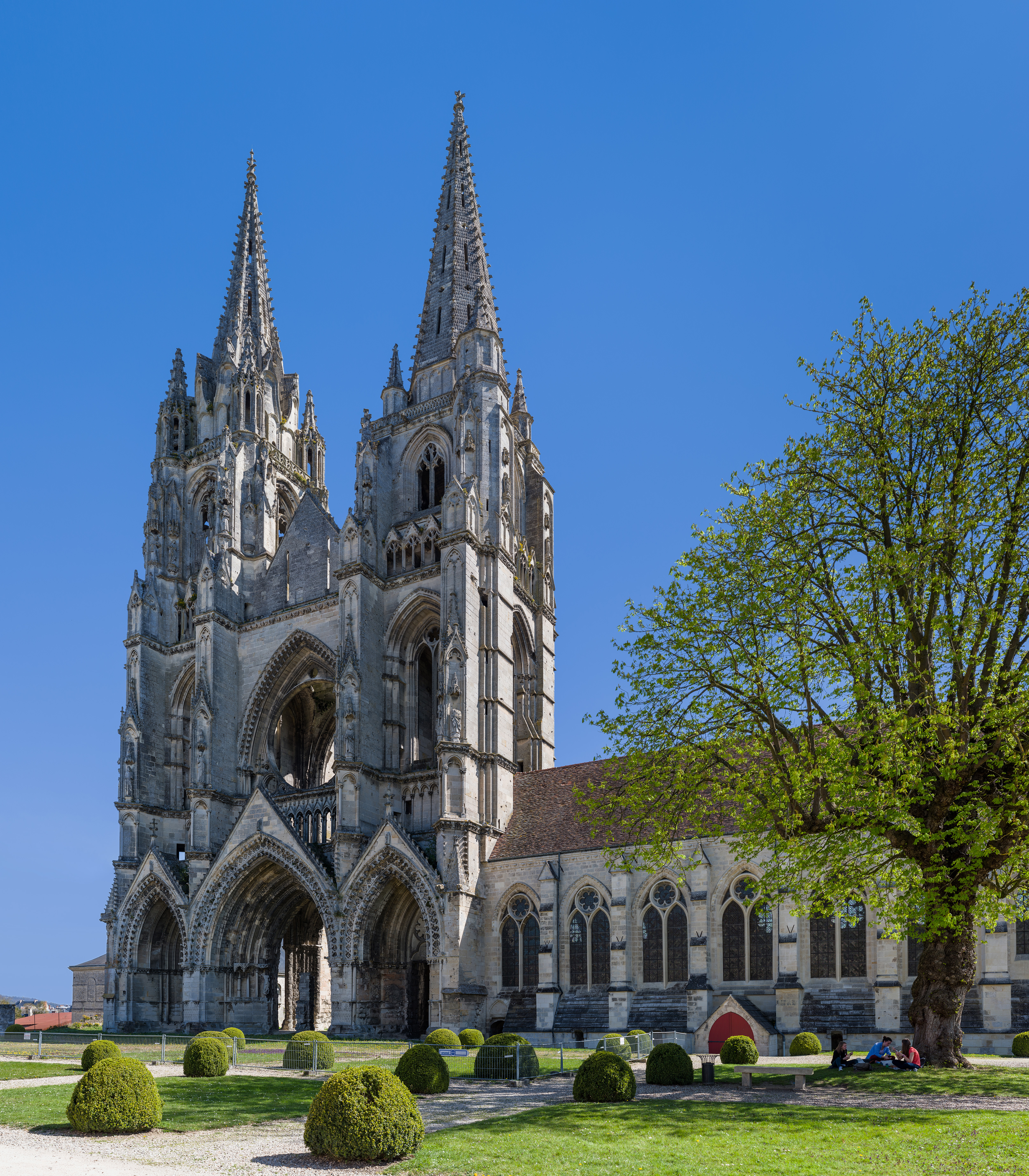 The ruins of Abbey of St. Jean des Vignes, Soissons, Picardy, France